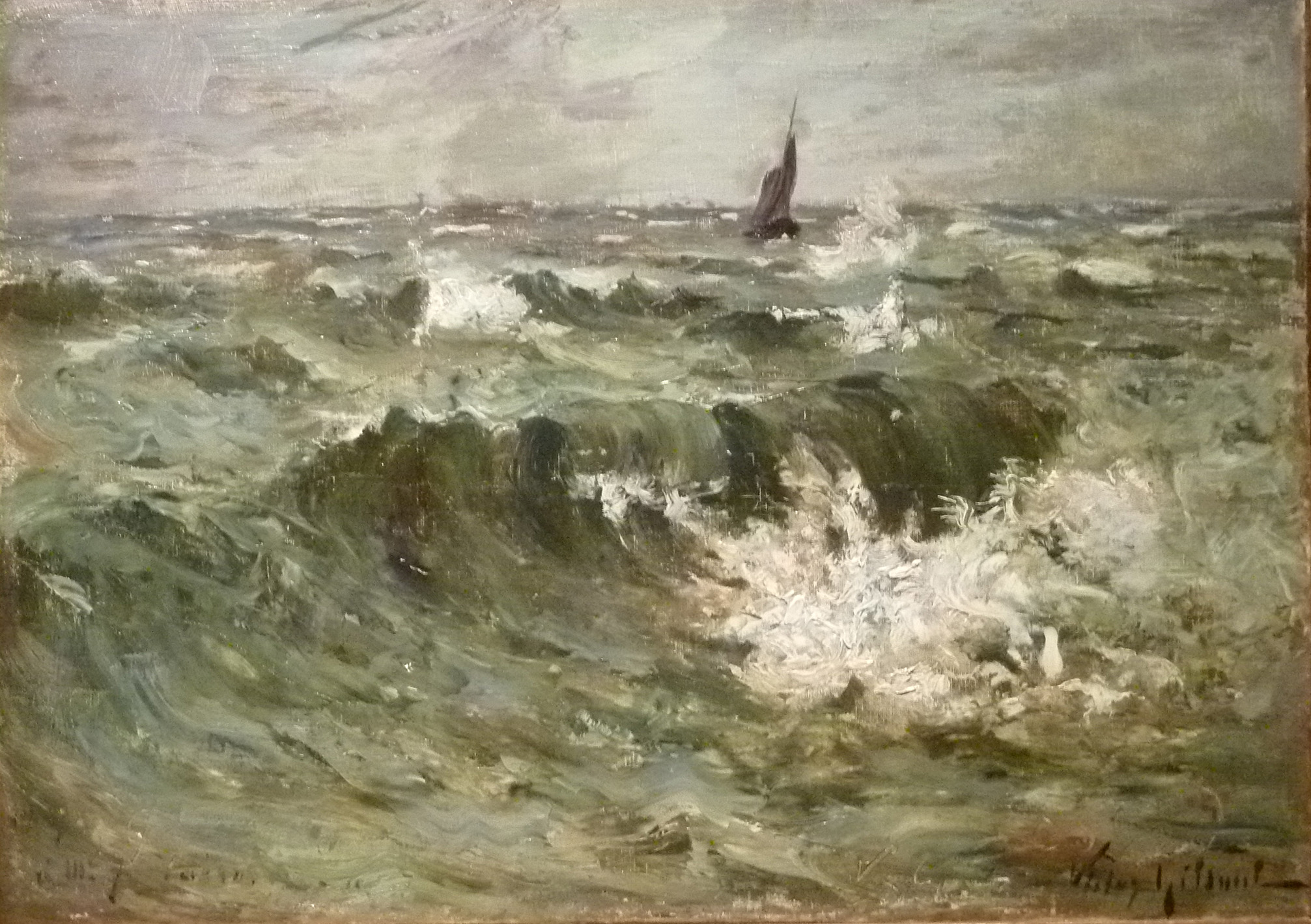 "Turbulent weather on the North Sea", oil on canvas (38 x 52 cm) by the Belgian painter Victor Gilsoul (1867-1939); private collection